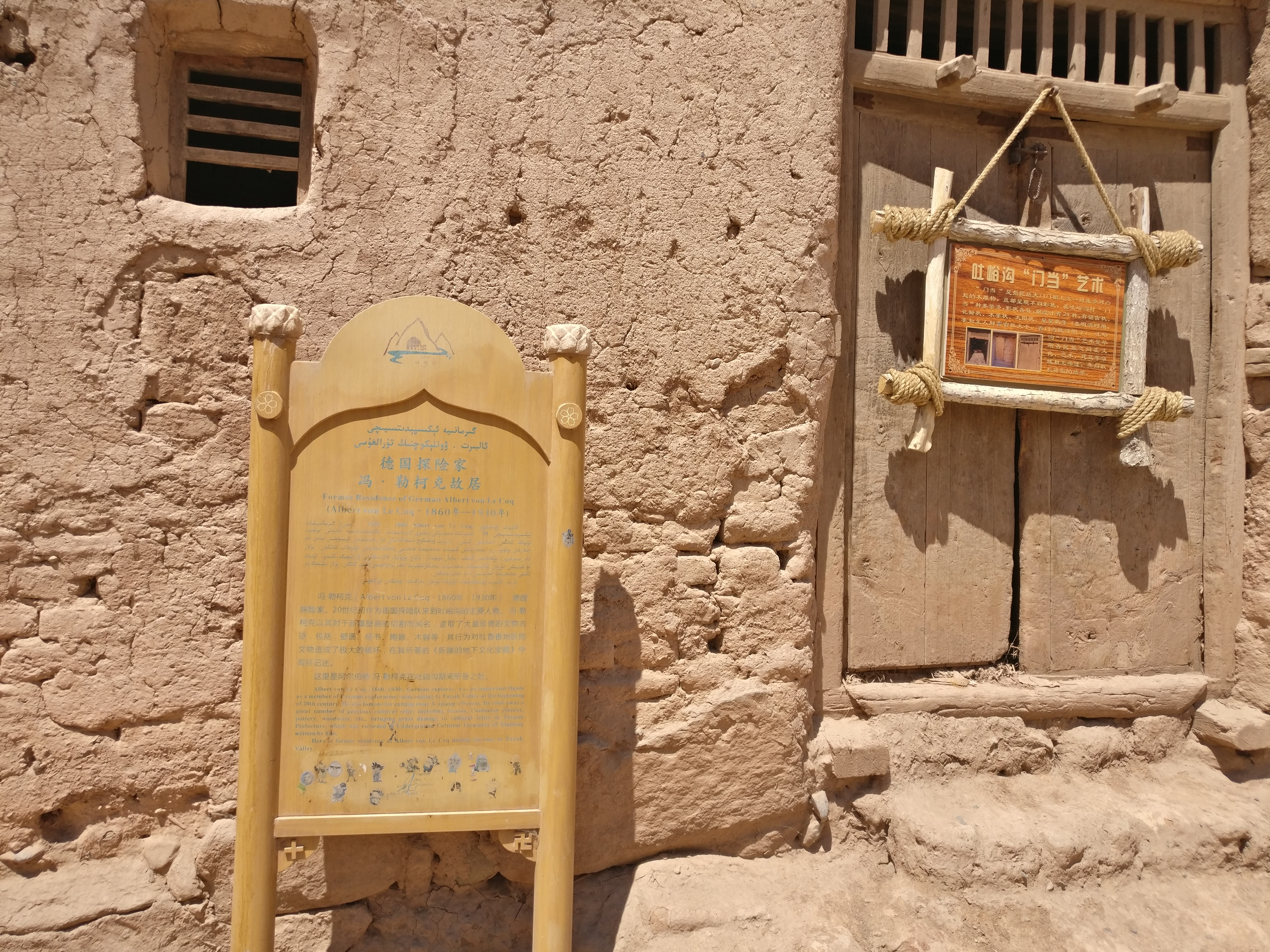 Albert von Let Cow once live in this house when he was on the adventure in Turpan. It is now a memorial spot.